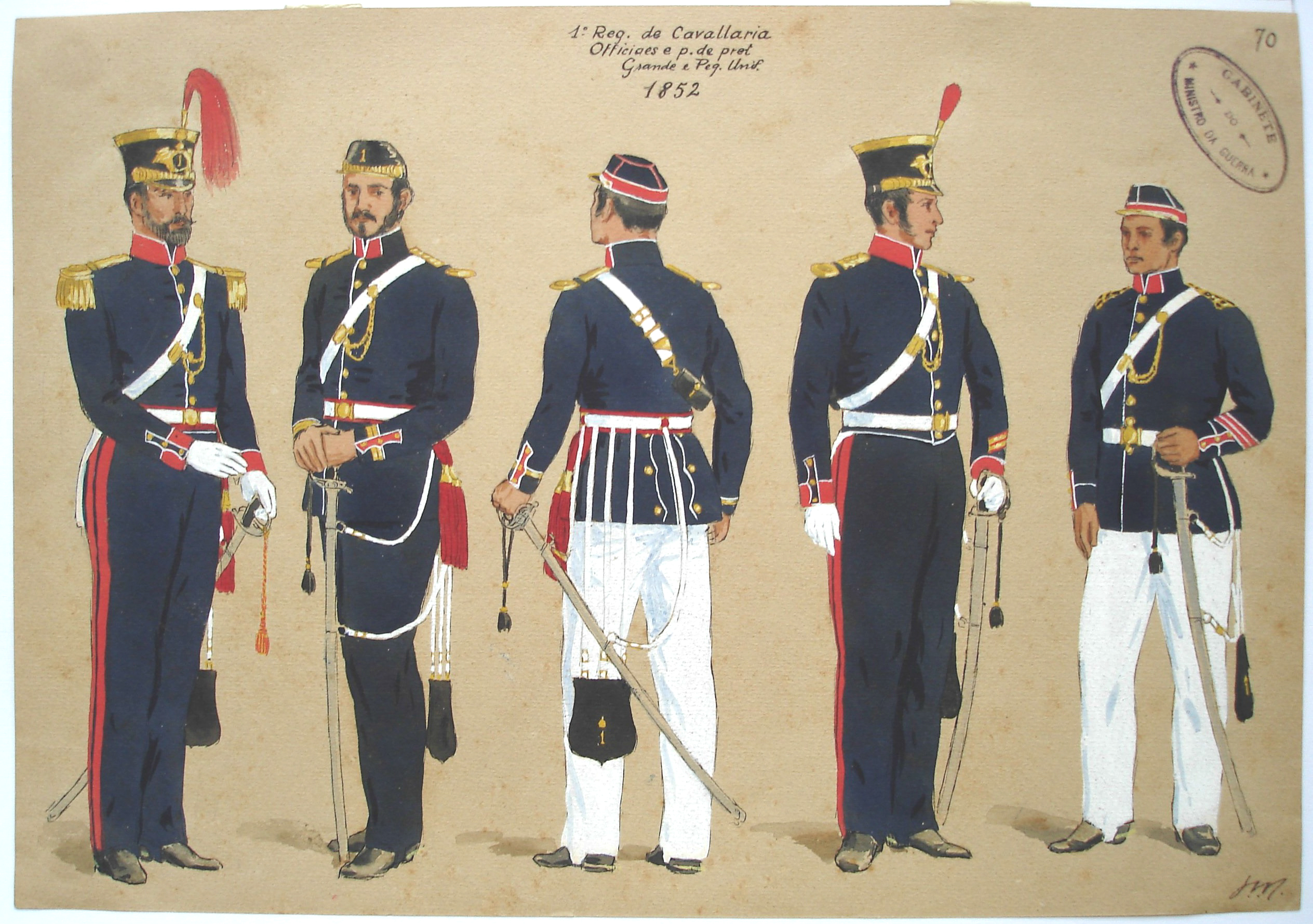 From left to right: captain (in grand uniform), lieutenant, alferes (second lieutenant), 1st sergeant (in grand uniform) and 1st sergeant of the 1st Regiment of Light Cavalry in 1852